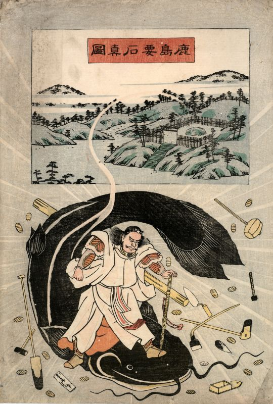 Title:Kashima kanameishi shinzu ("Kashima foundation stone's true depiction"). Above:Kashima Shrine and foundation stone. Below: Kashima's deity Takemikazuchi controlling the earthquake-causing giant catfish. A namazu-e (catfish art) type woodblock print.